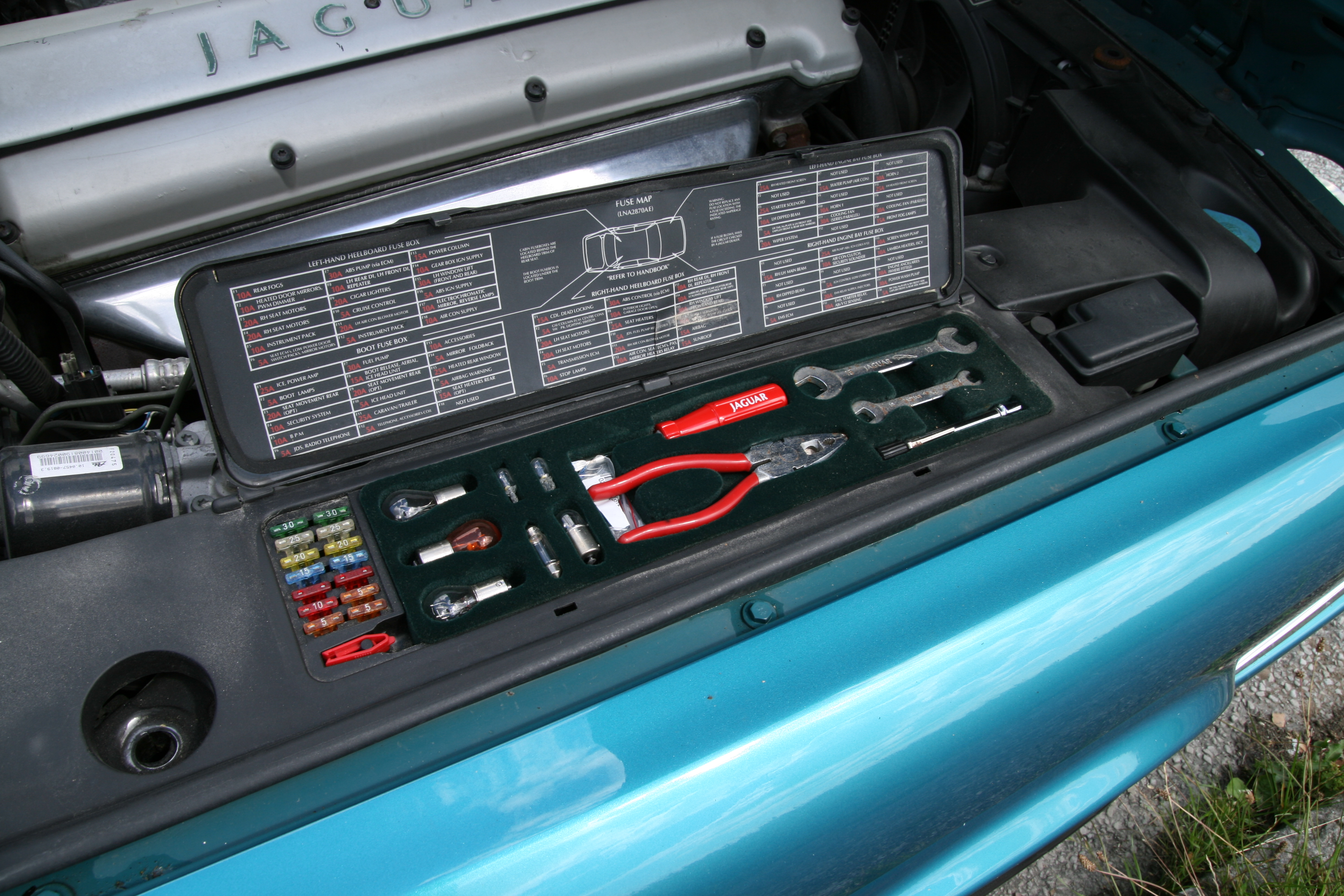 The toolbox in the right-hand side of the engine bay of a 1995 Jaguar XJ.